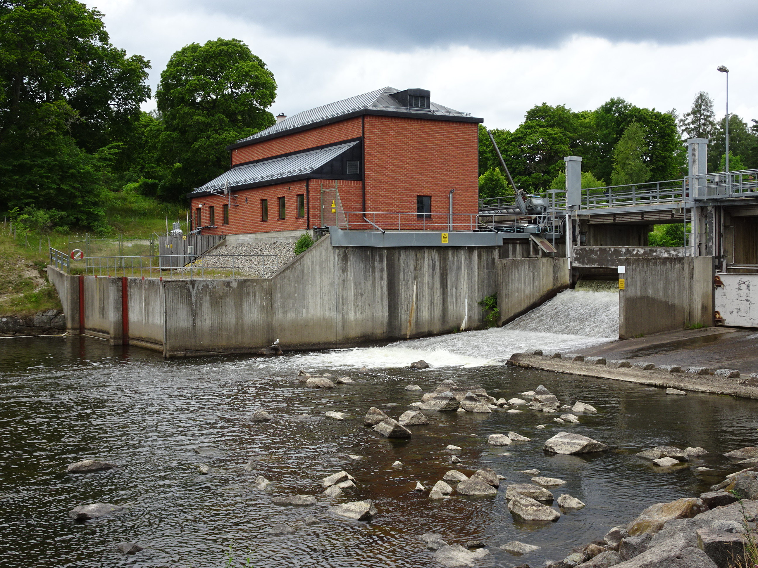 Seglingsberg hydroelectric power station in the river Kolbäcksån, in Seglingsberg, close to Ramnäs in Sweden.